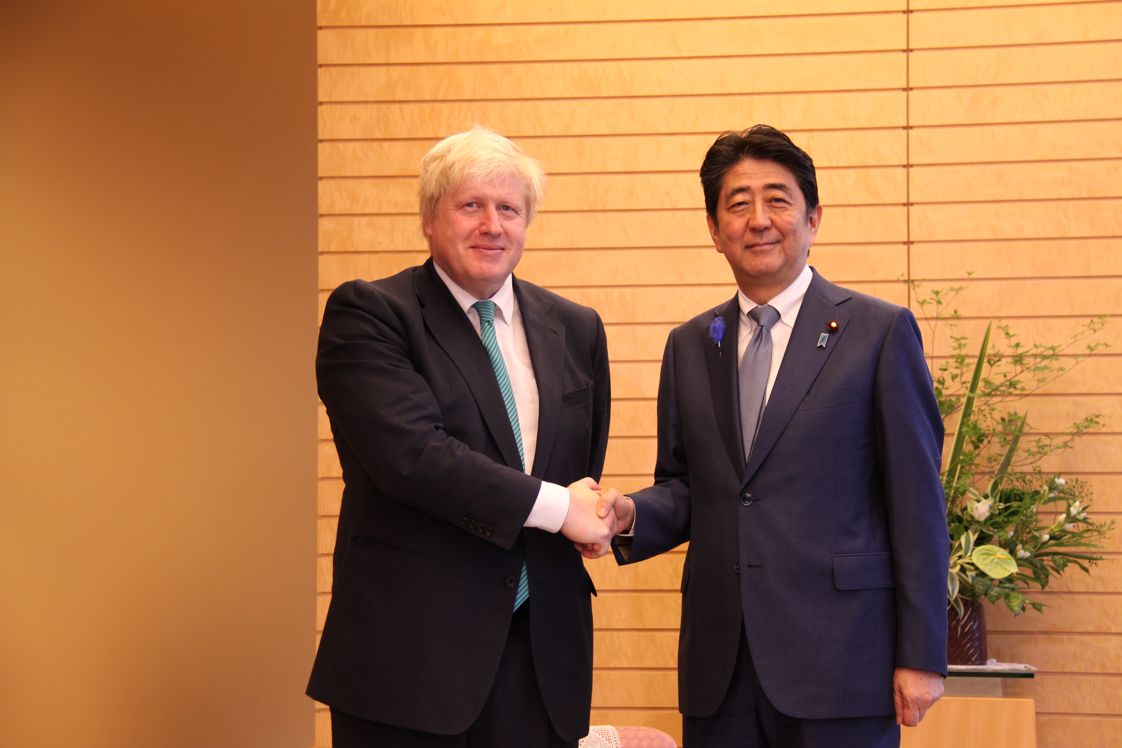 Foreign Secretary meets Japanese Prime Minister Shinzo Abe. (c)British Embassy Tokyo